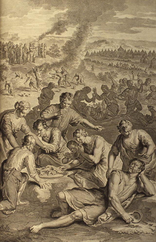 A Plague Inflicted on Israel While Eating the Quails; as in Numbers 11:31-34; illustration from the 1728 Figures de la Bible; image courtesy Bizzell Bible Collection, University of Oklahoma Libraries